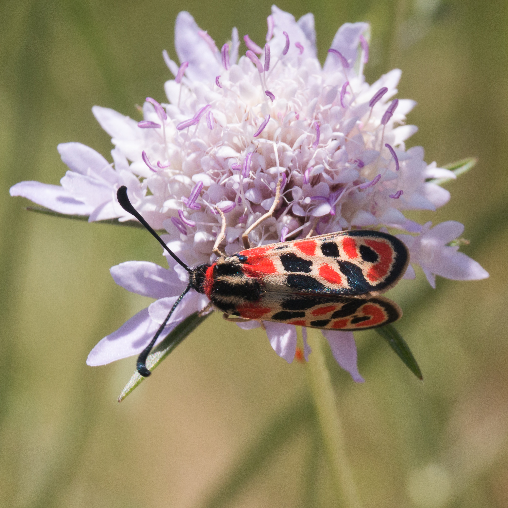 Zygaena fausta